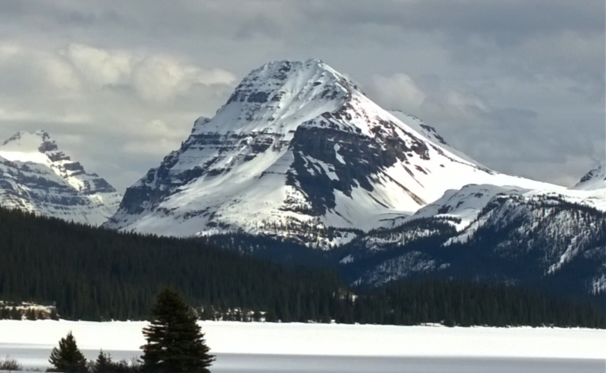 Bow Peak seen from Bow Lake, Banff National Park